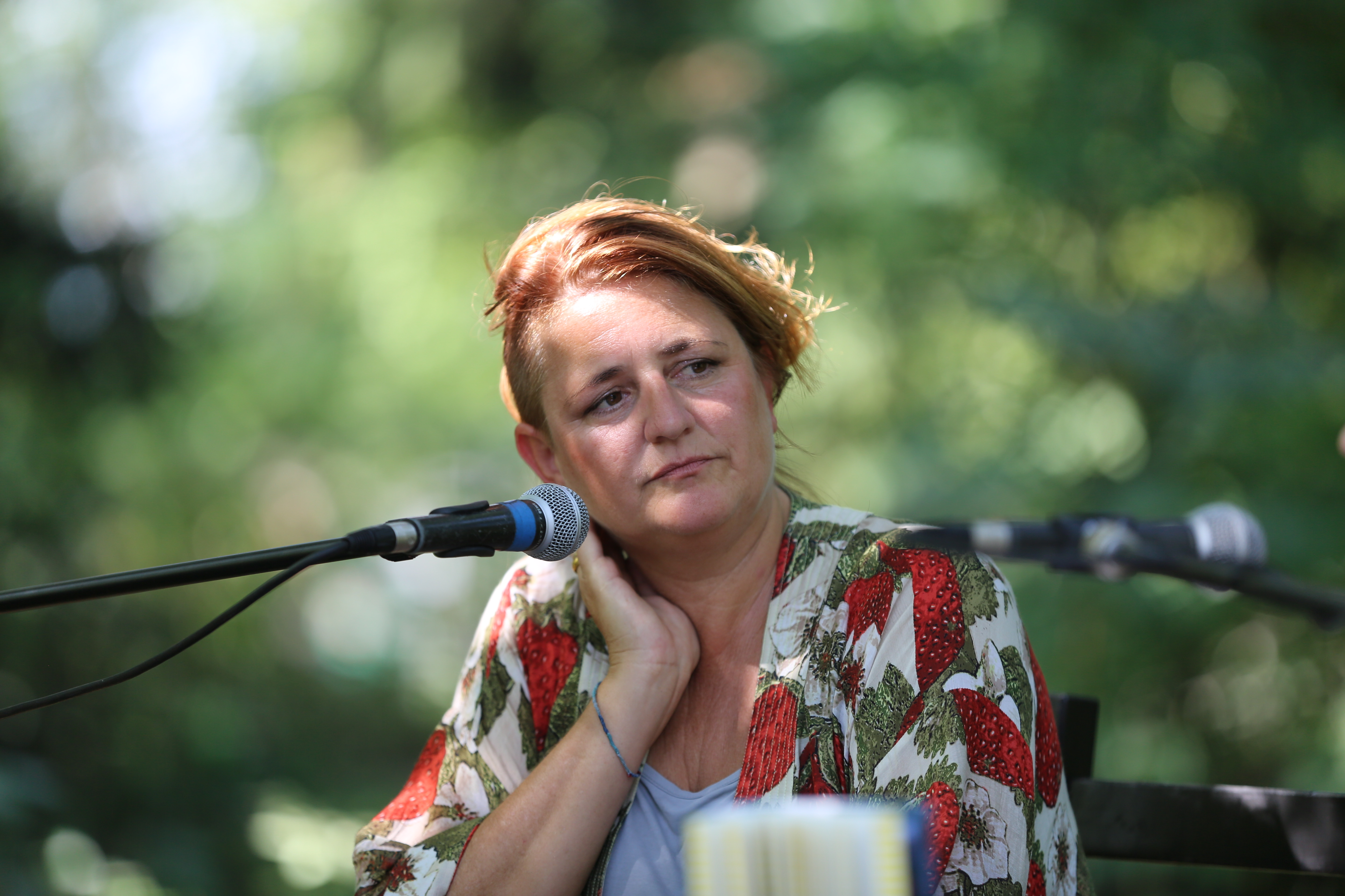 Austrian author Gertraud Klemm presents her new novel "Hippocampus" at Literature festival "Erlanger Poetenfest" 2019